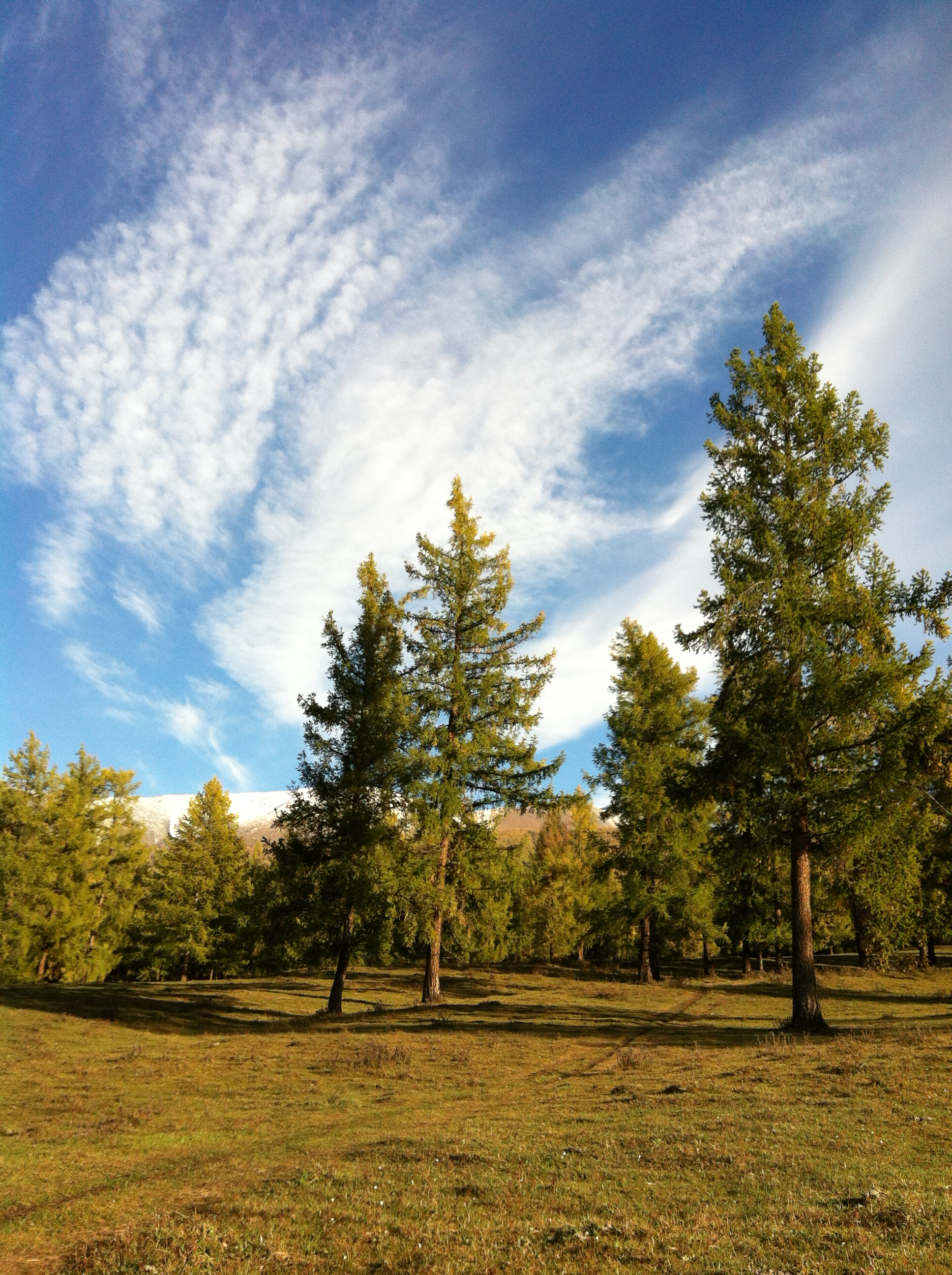 Larix sibirica, Habahe County, Altay, Xinjiang, China